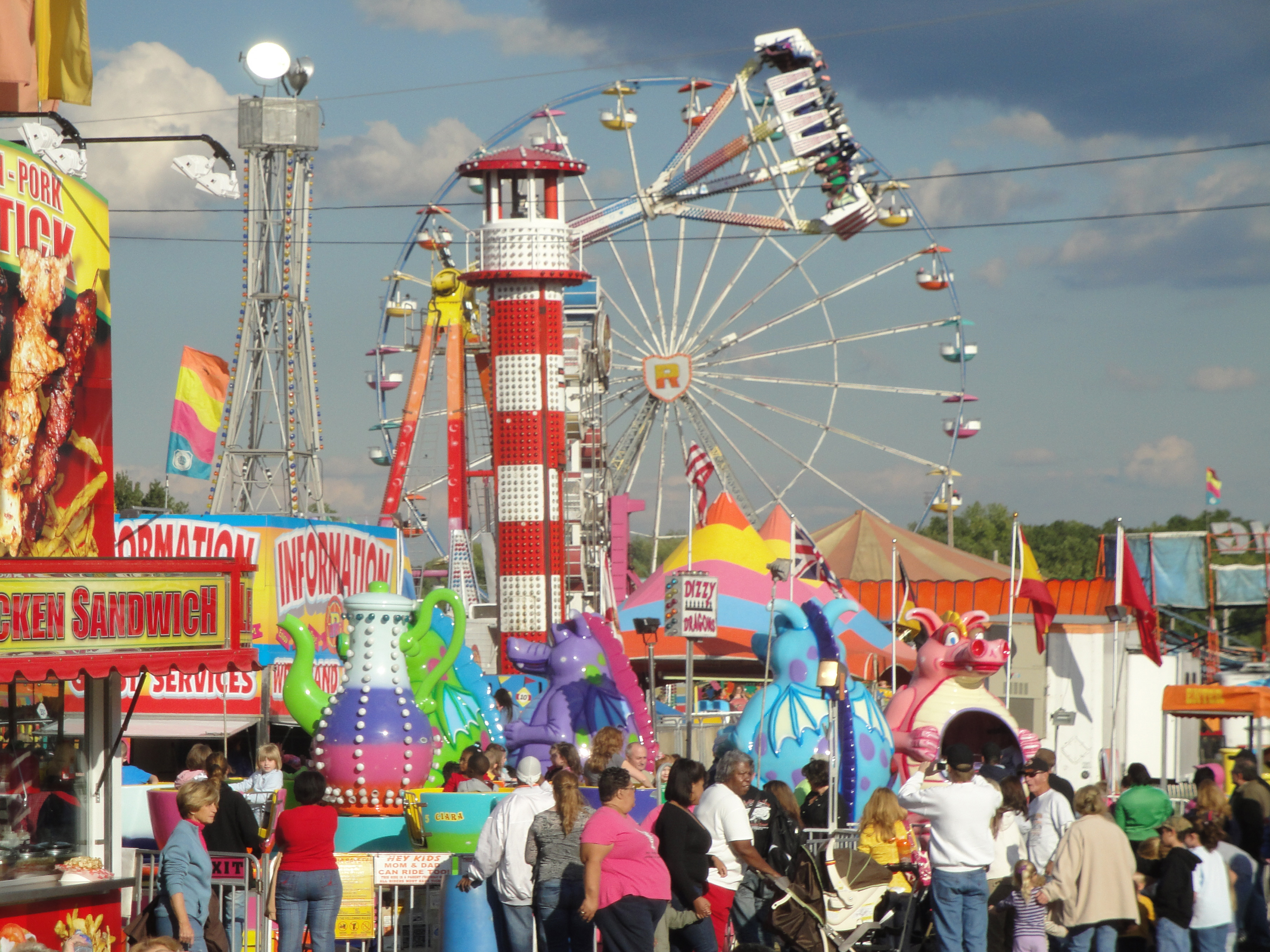 The Cleveland County Fair in 2010. You can see the Ferris Wheel and various other rides.